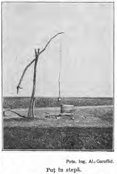 A fountain in the plain region of Brăila county, Romania, at the begining of the XXth centuryRomână: Fântână în stepa Brăilei la începutul secolului XX